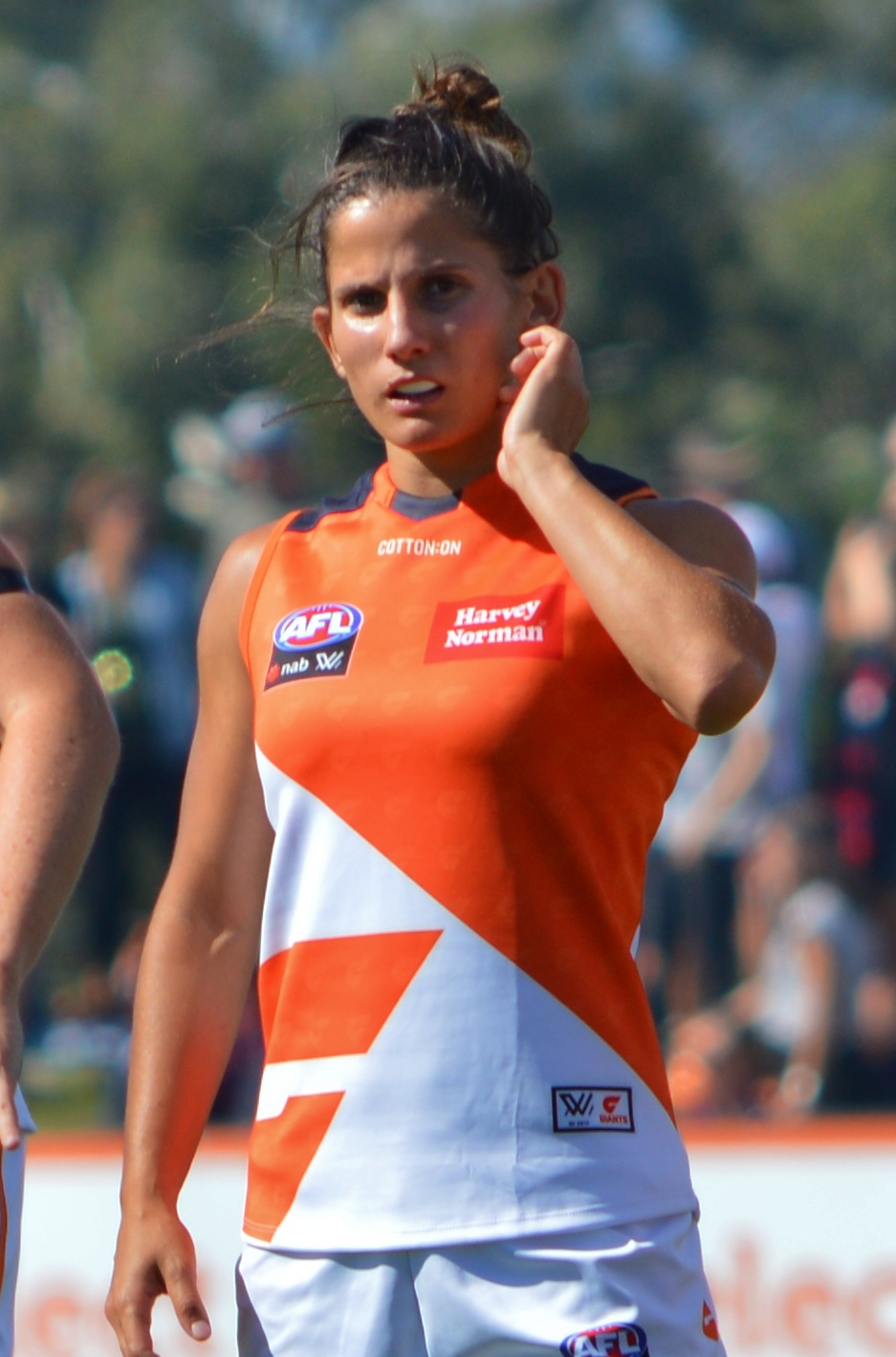 Jess Dal Pos during the round 1, 2018 AFL Women's match between Melbourne and Greater Western Sydney.